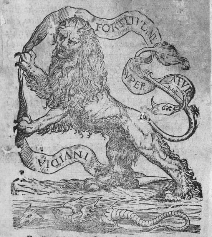 Navò's mark